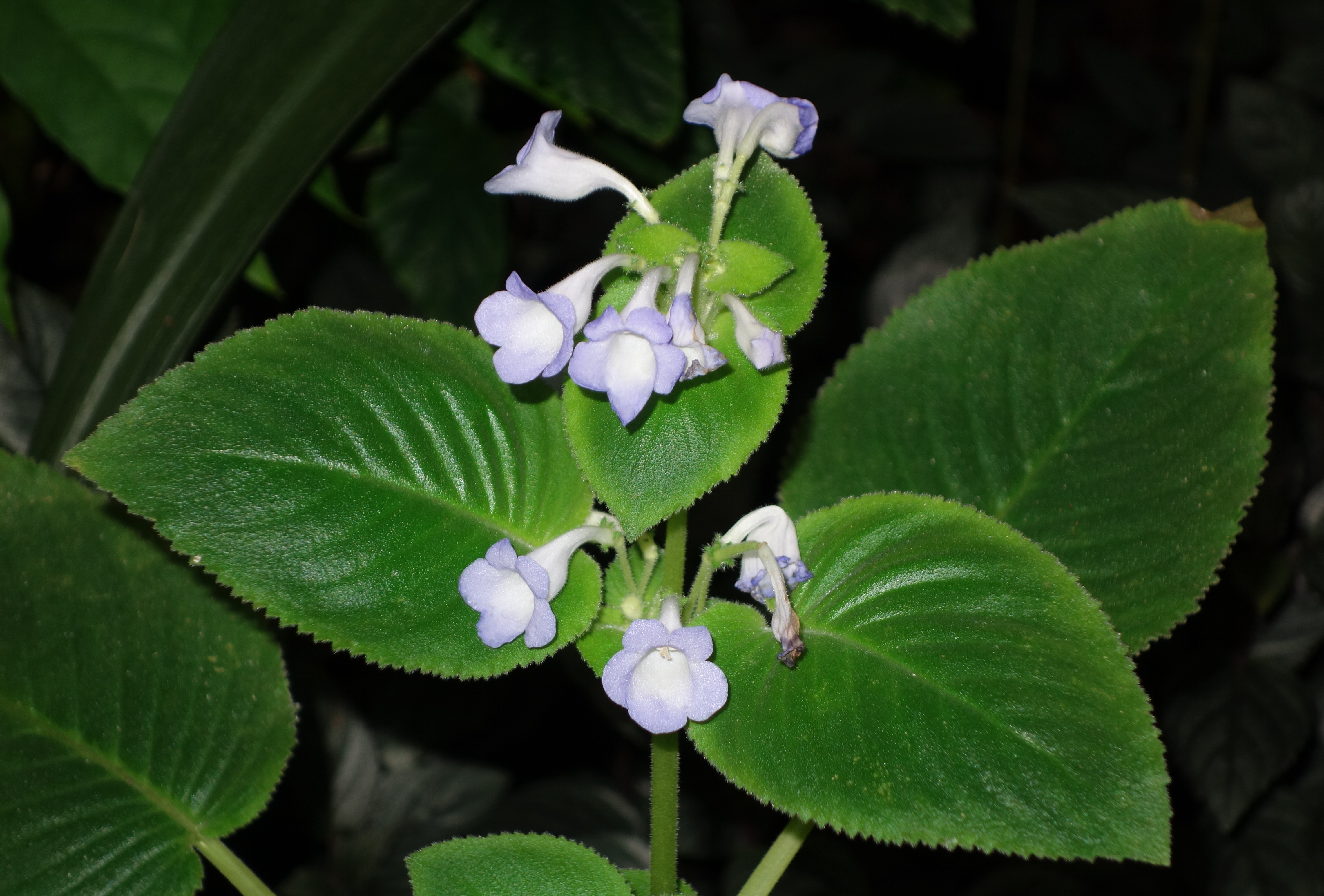 Botanical specimen in the Botanischer Garten, Dresden, Germany.